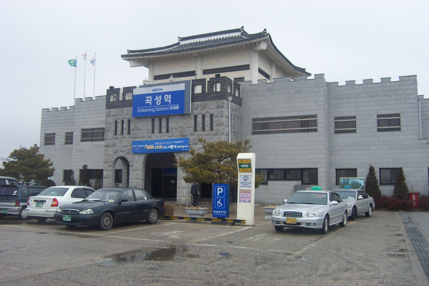 Content Gokseong Station in Jeolla Line. Photoed by Integral(∫) on February 12, 2006.